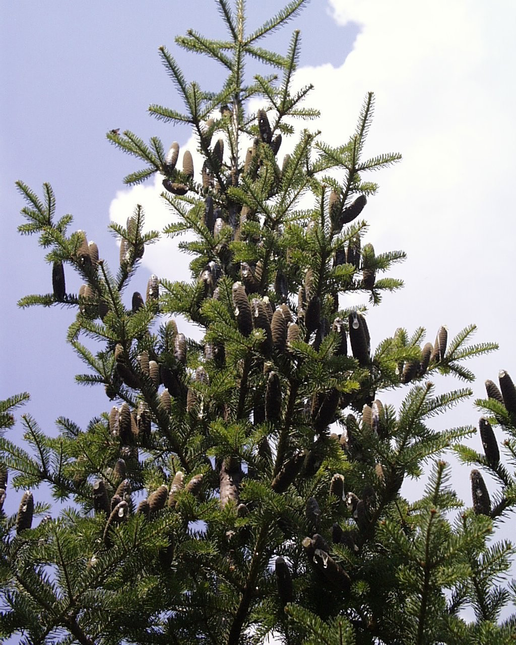 Abies balsamea tree with cones, Sherburne National Wildlife Refuge, Minnesota